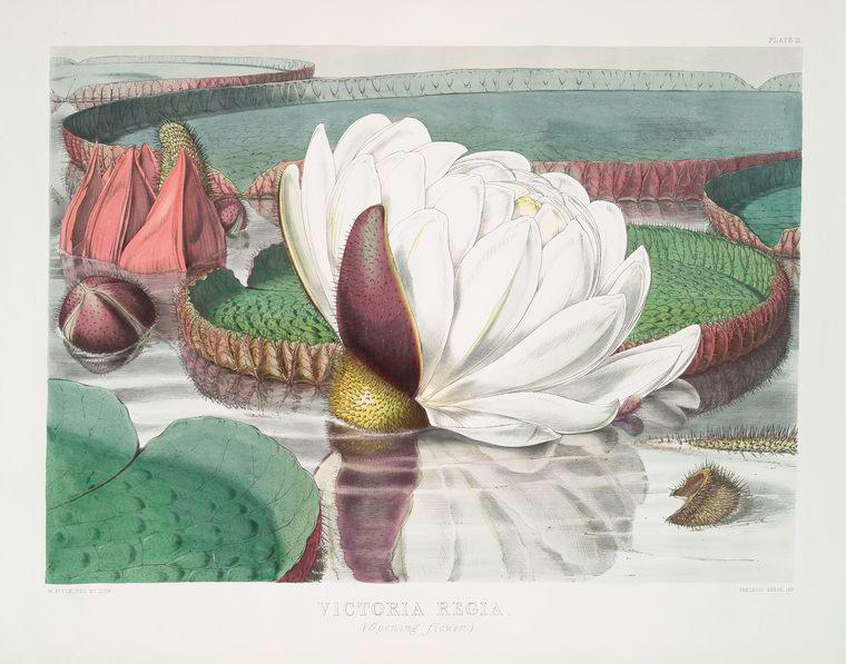 Scan of plate 2 from a monograph describing and illustrating the species Victoria amazonica.